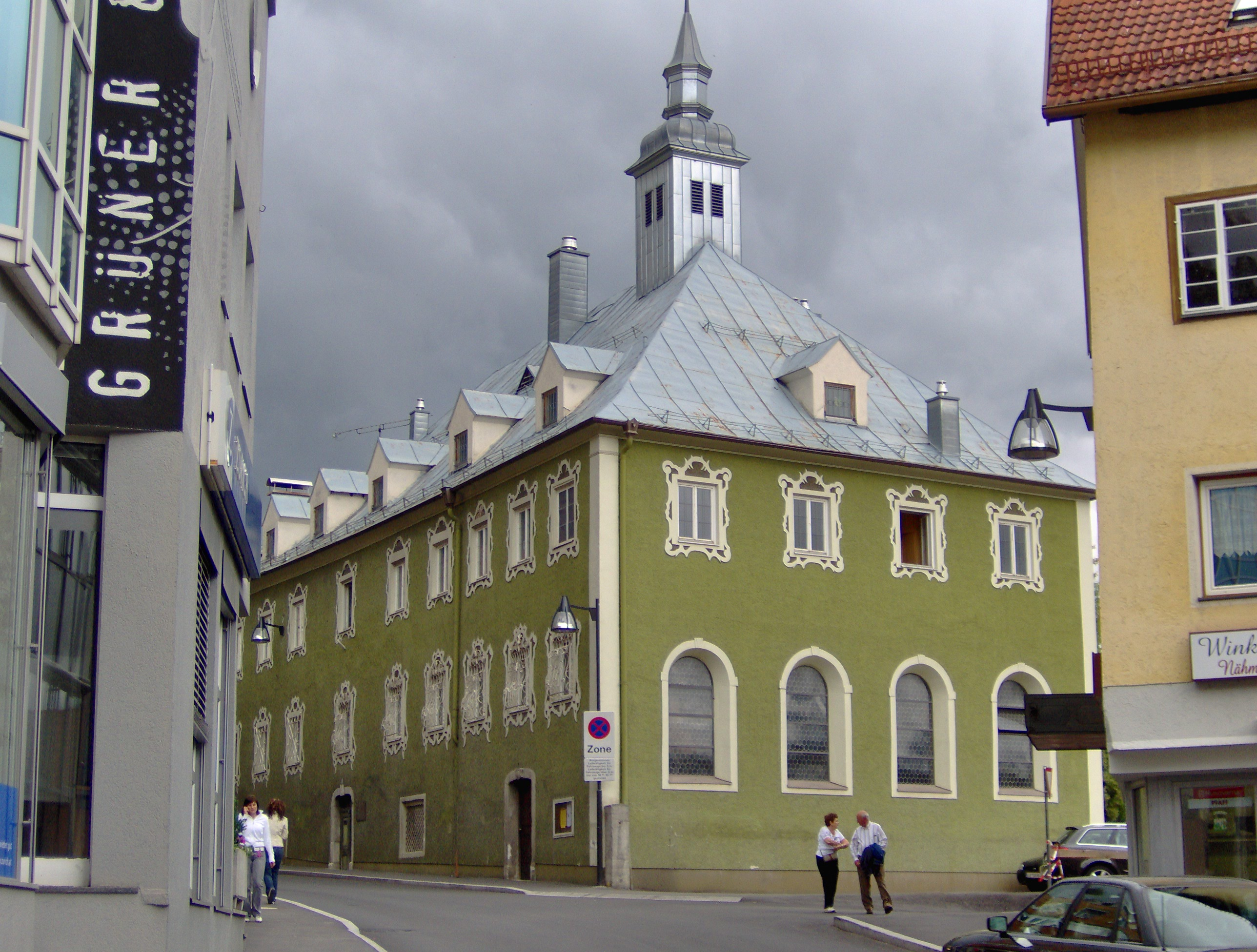 Monastery of Sisters of Mercy, Imst, Tyrol, Austria